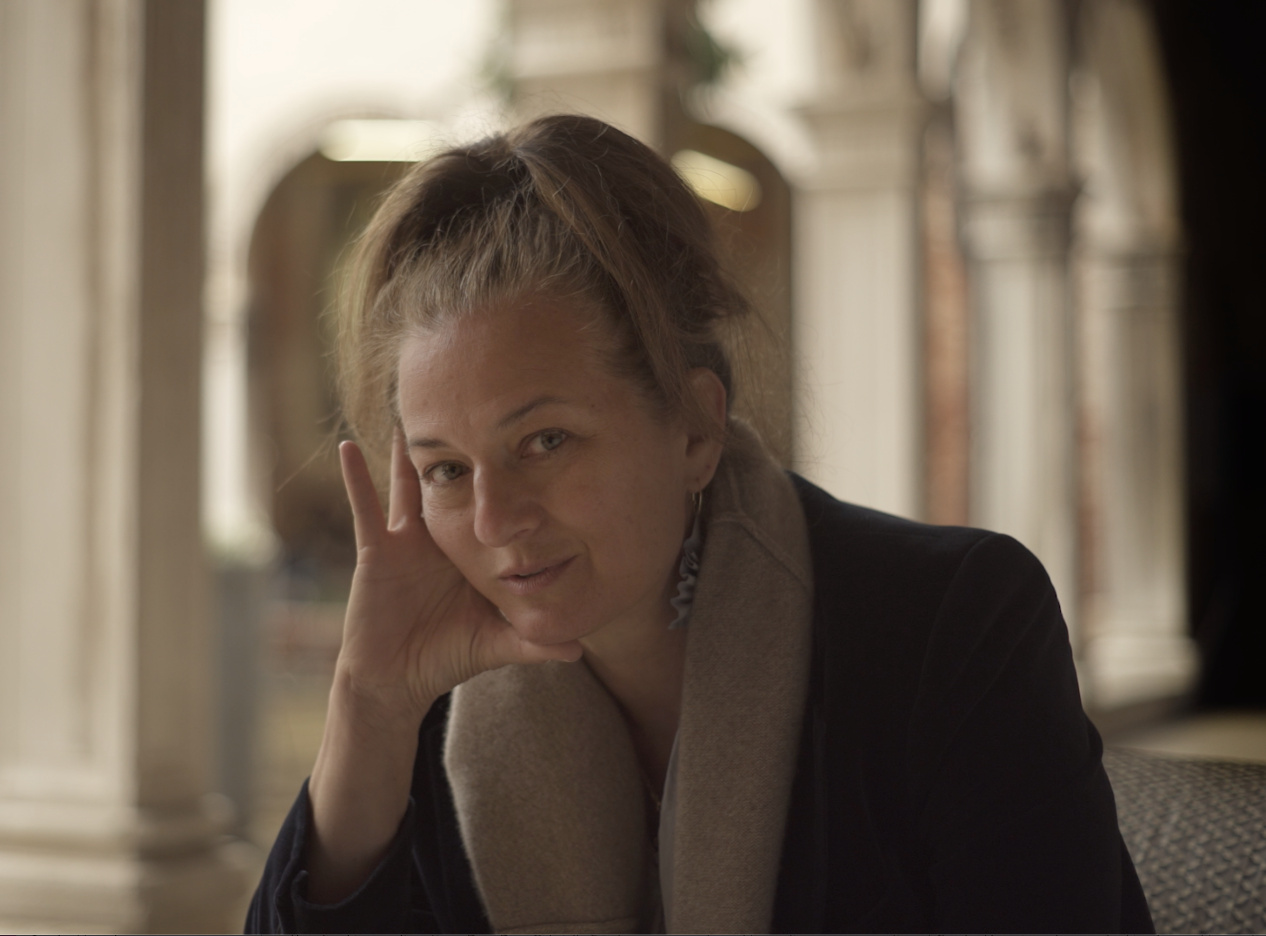 photograph of the artist and filmmaker Dara Friedman